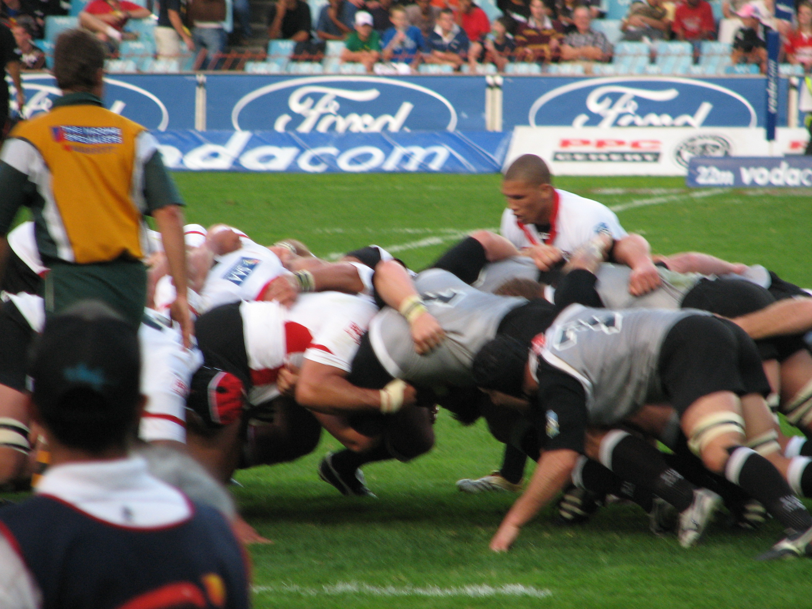 A photo of a scrum during a rugby union match at Ellispark, South Africa between the Cats and the Sharks on 15/04/2006.